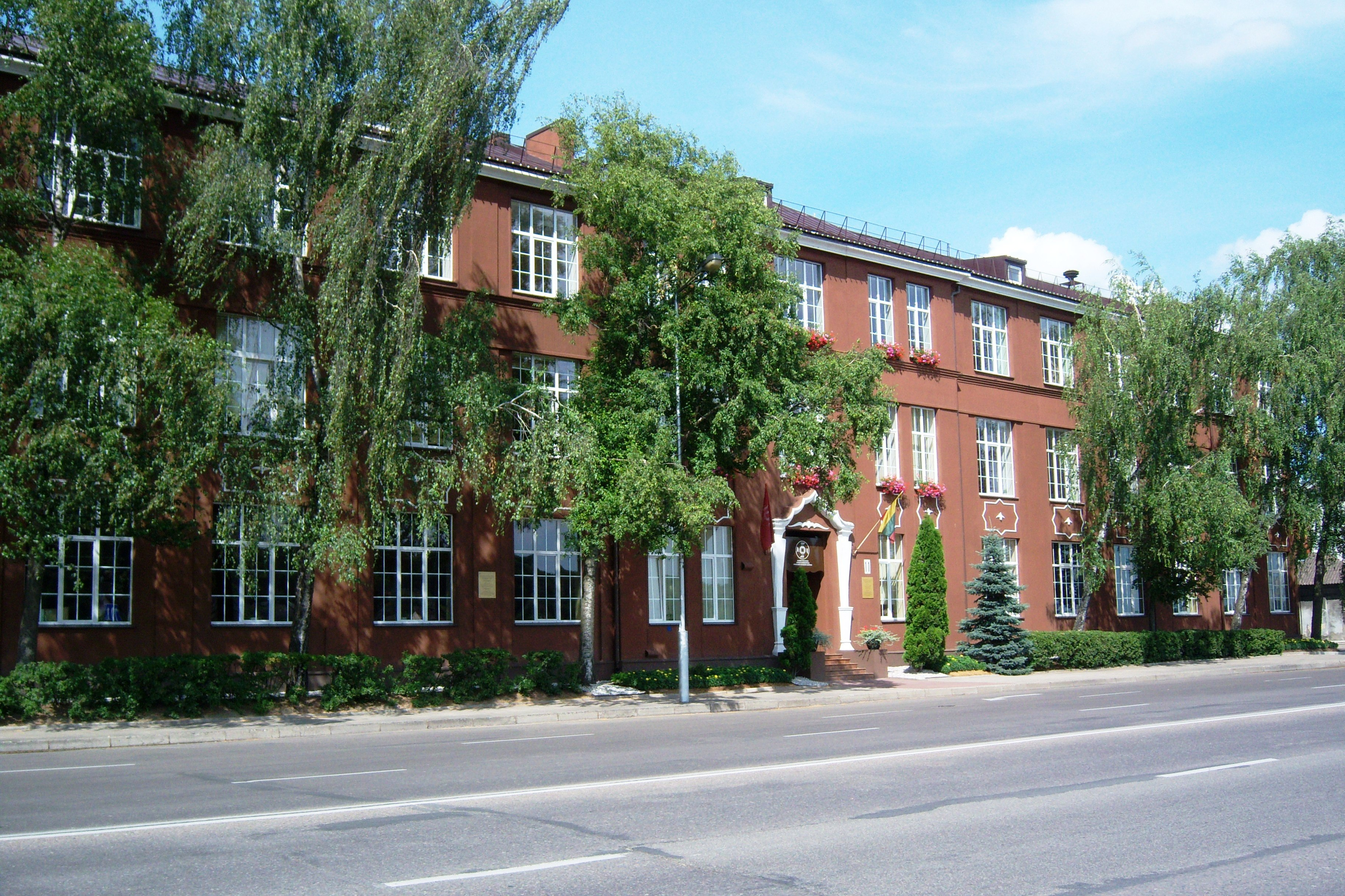 Former Jewish Gymnasium, now vocational school, Kaunas, Lithuania